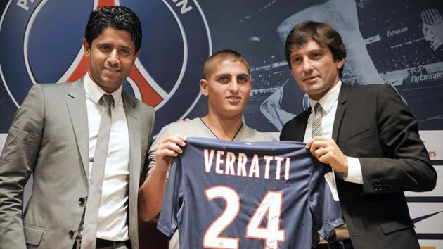 Marco Verratti signs for PSG